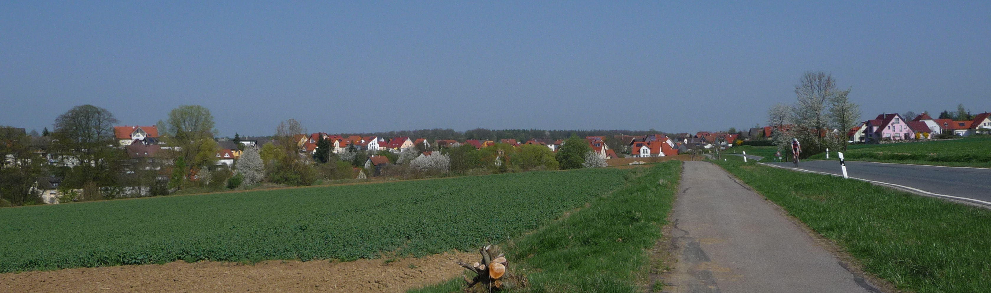 Schammelsdorf in Landkreis Bamberg, Germany